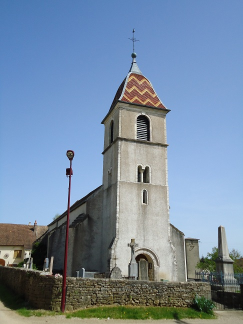 Auxange, the church